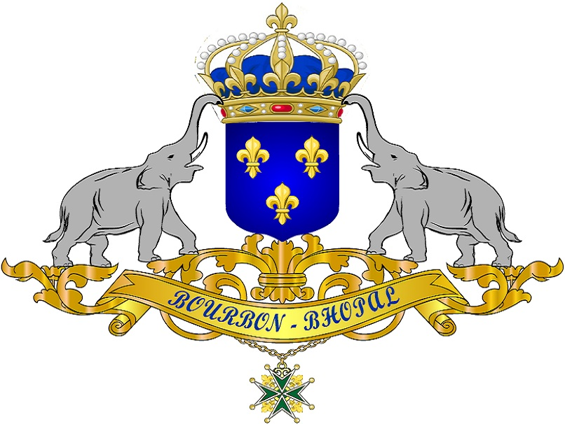 Coat of Arms of the Bourbons of India